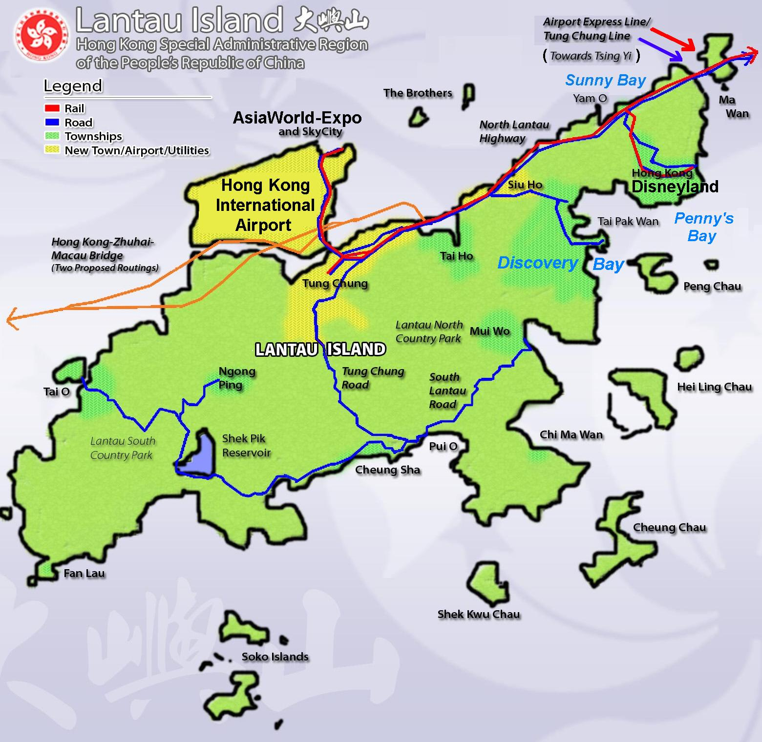 Lantau Island in the Hong Kong islands. Closer view of map, magnified 25%, with labels moved toward center and bays, airport, Hong Kong Disneyland, and AsiaWorld-Expo labels enlarged 200%. "Concept Plan for Lantau" graphic drawn by mintchocicecream. First version released on 24 November 2004, this version released on 7 August 2005. Created for Wikipedia, the free encyclopedia. The latest image is located at Based on plans released by the Hong Kong SAR Government Lantau Development Task Force in late 2004.